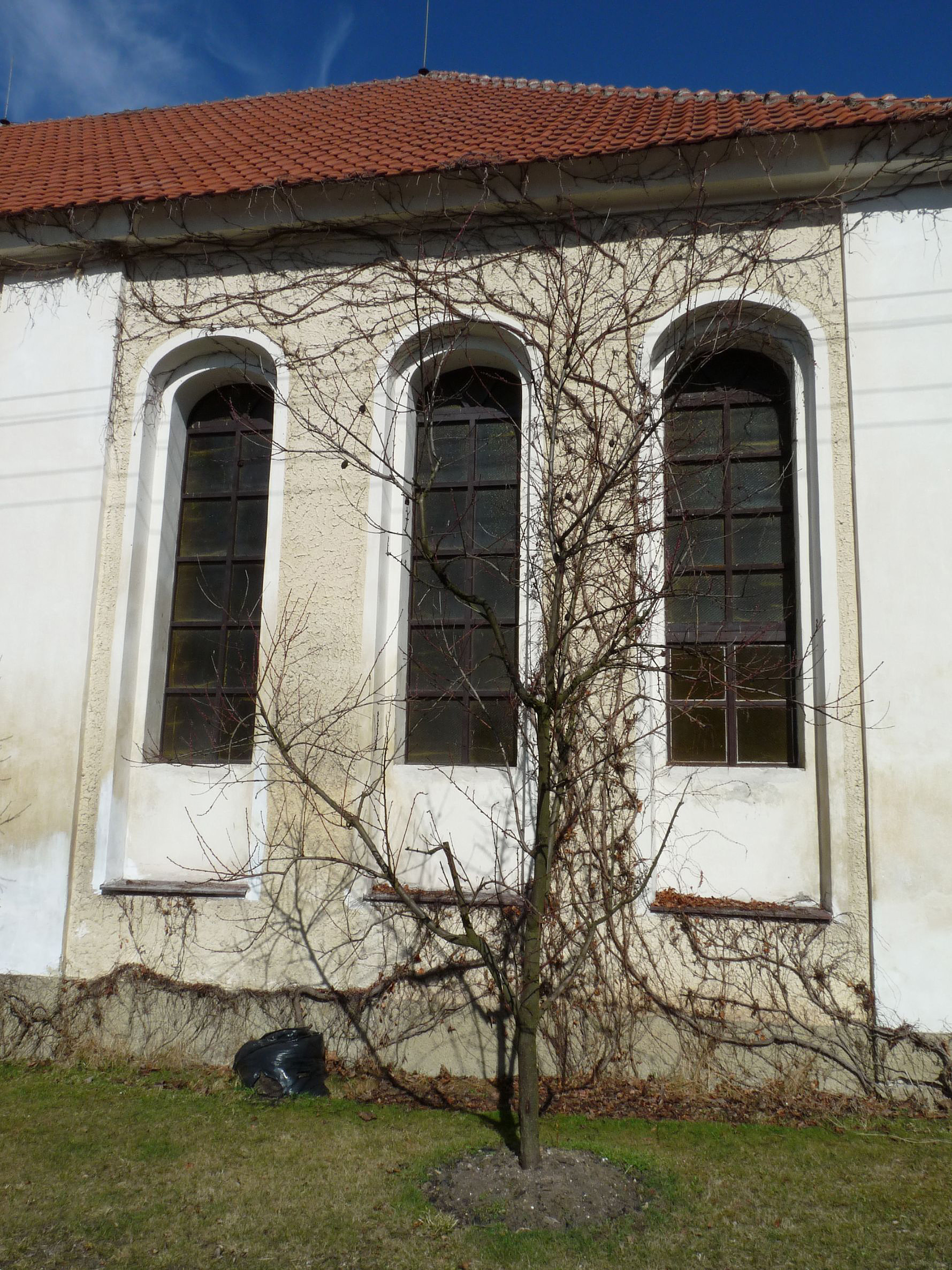 Former synagogue in the municipality of Slatina, Klatovy District, Czech Republic